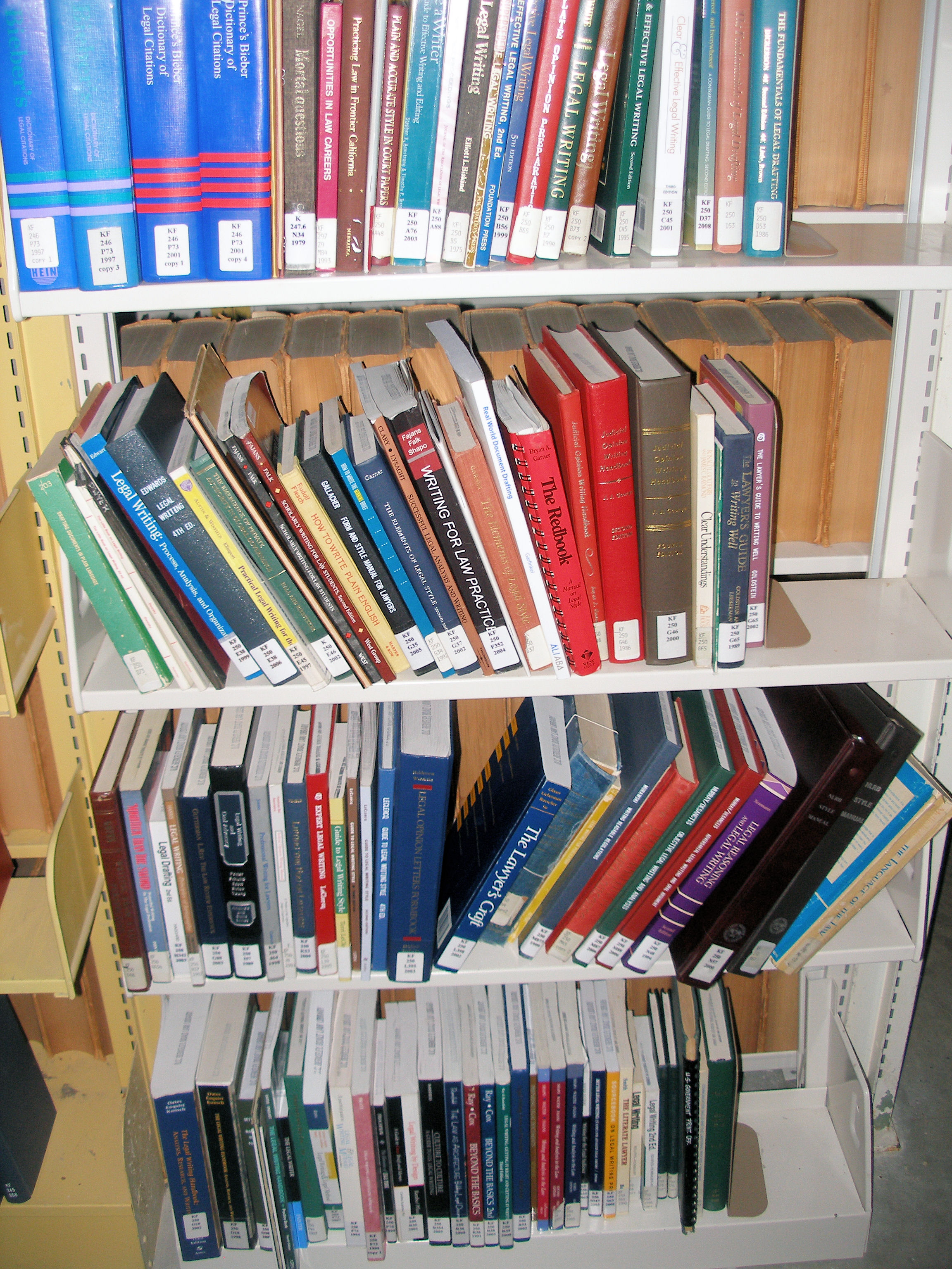 Books on legal writing at the law library of the UC Berkeley School of Law.